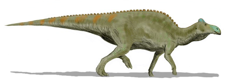 Edmontosaurus regalis, a hadrosaur from the Late Cretaceous of North America, pencil drawing. Illustration based from the Edmontosaurus' skeletal reconstruction by Greg Paul.